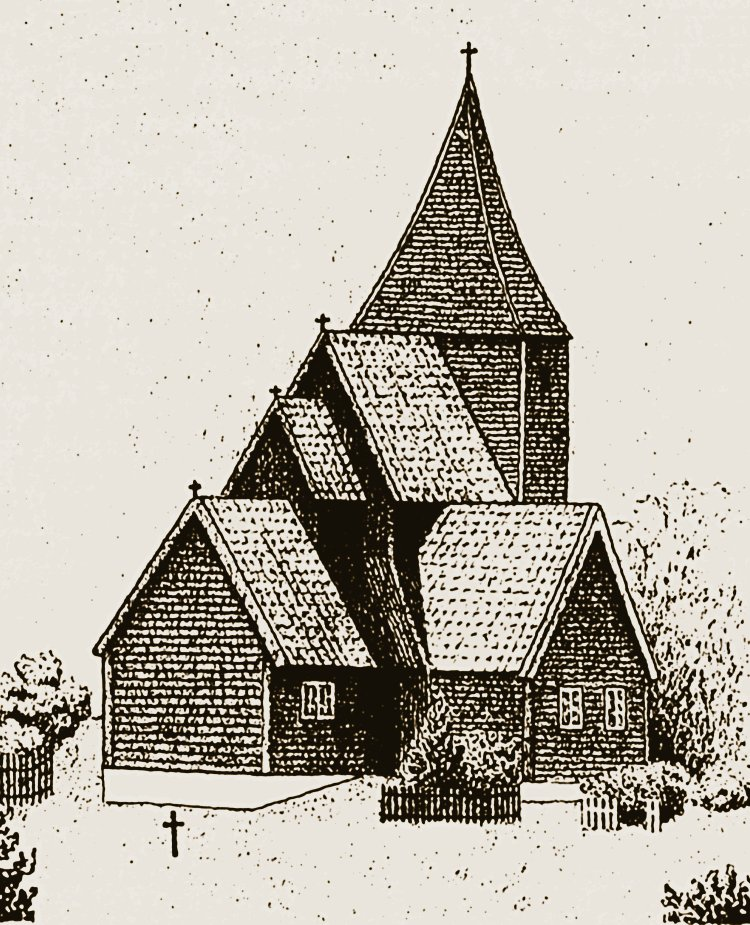 Drawing of Hopperstad stave church from 1878. Processing by — John Erling Blad (jeb)